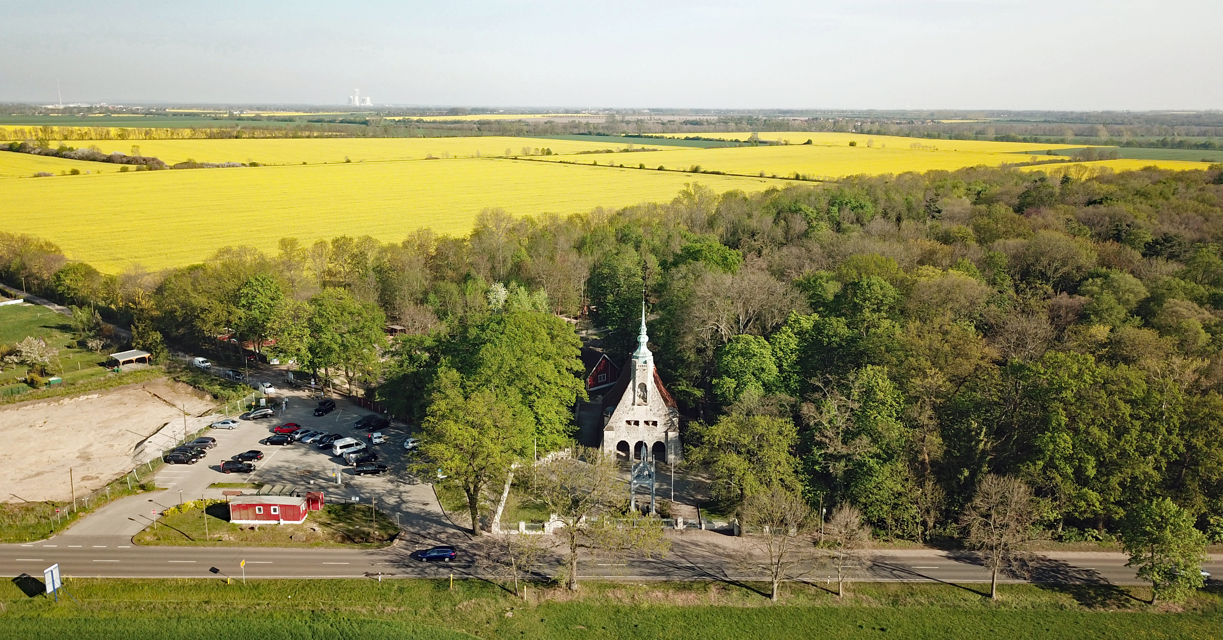 Battlefield (1632) near Lützen, Saxony-Anhalt, Germany